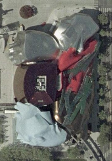 The Experience Music Project by architect Frank Gehry at the Seattle Center.